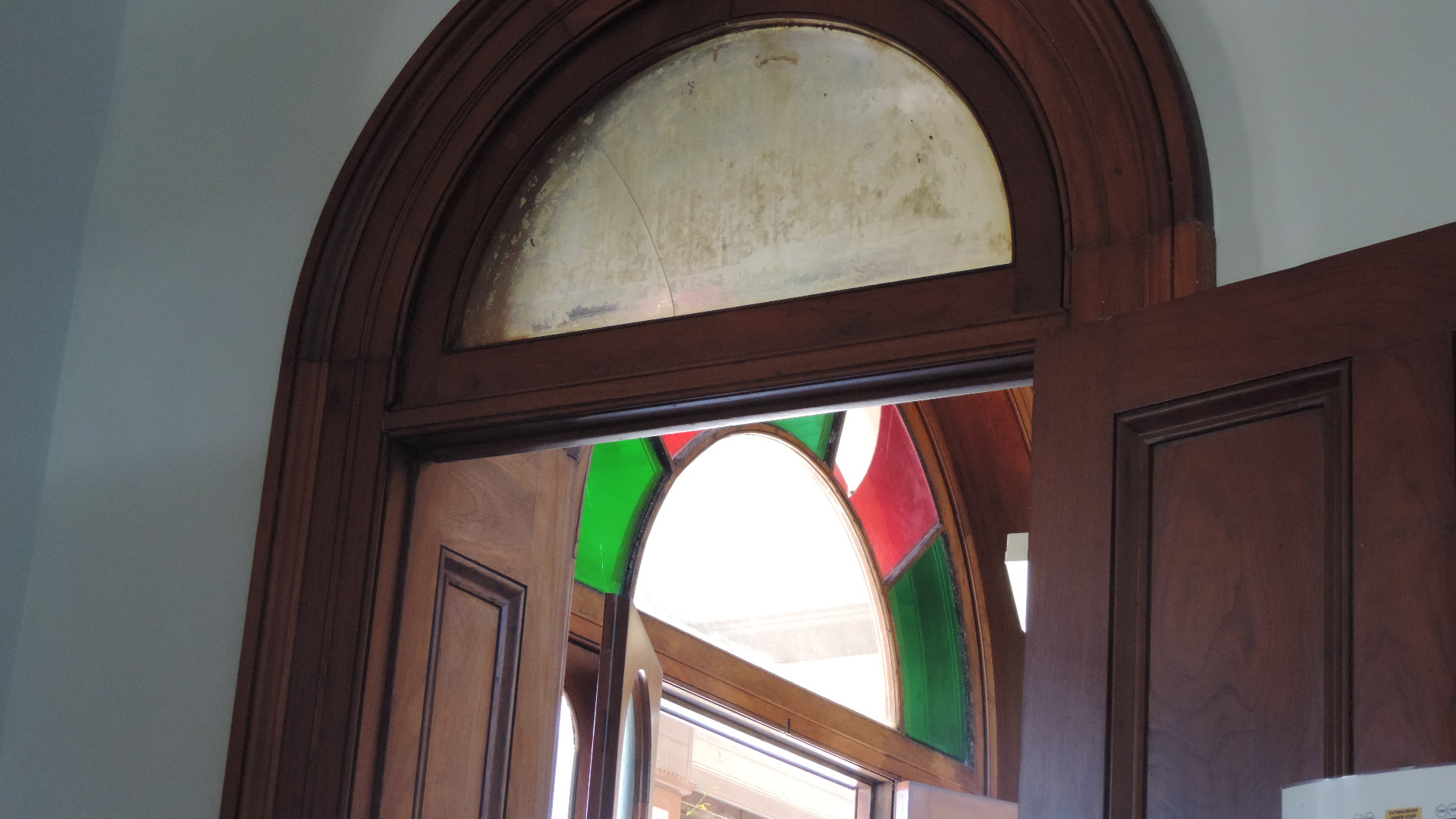 Glengallan Homestead, fanlights, 2015